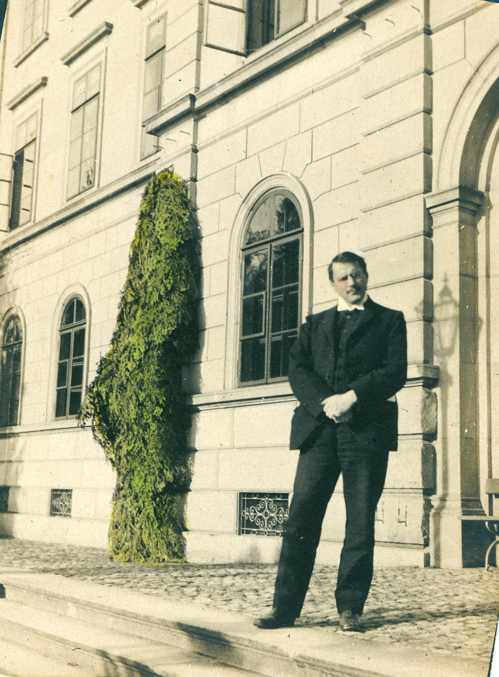 Carl Gustav Jung, full-length portrait, standing in front of Burghölzli clinic, Zurich